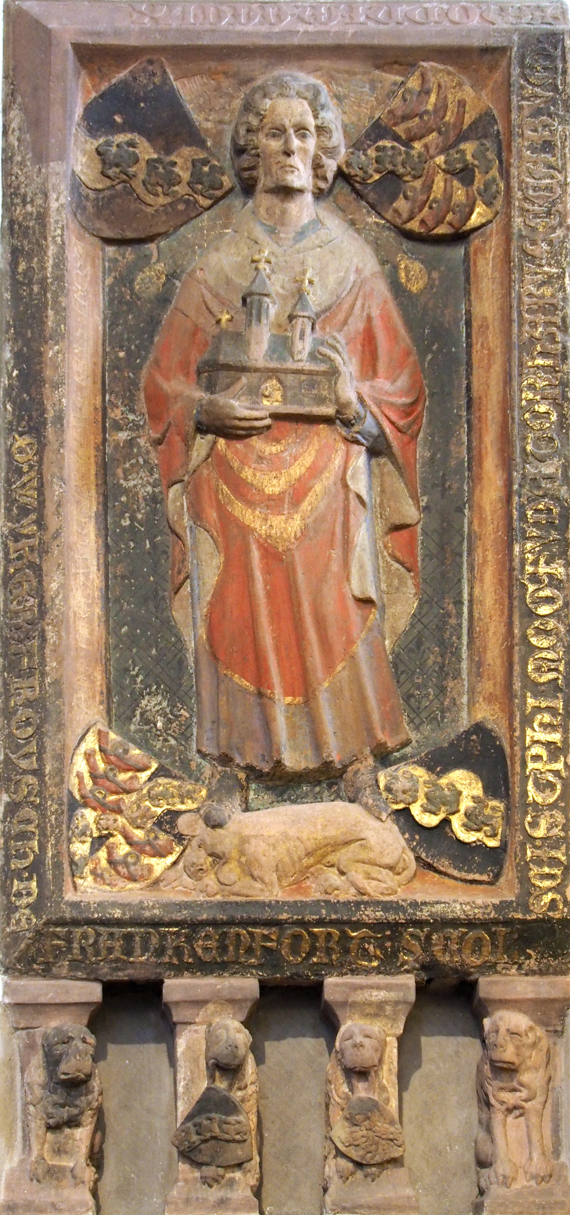 Epitaph Wicker Frosch (ca. 1300–1362), Patrician of Frankfurt am Main, Germany